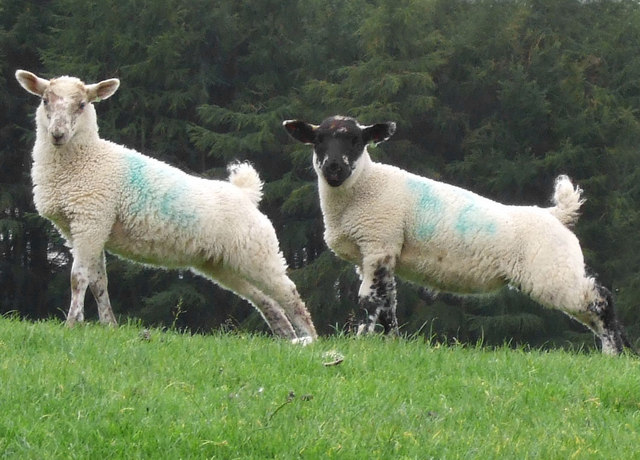 Black and white in harmony Striking poses boys. Sorry I was too late with the camera and missed the synchronized wee wee.